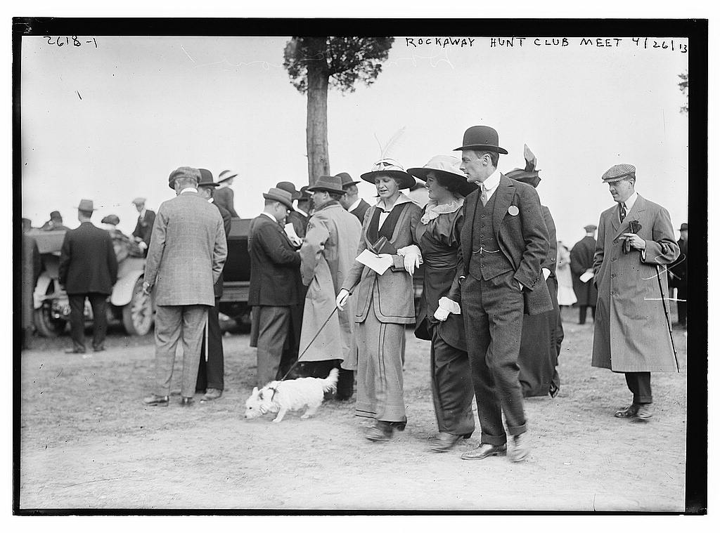 Rockaway Hunt Club meet at Cedarhurst on April 26, 1913 "HUNTER AND PONY RACES.; Rockaway Hunting Club's Plans for One-Day Meeting April 26." Bain News Service,, publisher. Rockaway hunt club meet [between ca. 1910 and ca. 1915] 1 negative : glass ; 5 x 7 in. or smaller. Notes: Title from unverified data provided by the Bain News Service on the negatives or caption cards. Forms part of: George Grantham Bain Collection (Library of Congress). Format: Glass negatives. Repository: Library of Congress, Prints and Photographs Division, Washington, D.C. 20540 USA, General information about the Bain Collection is available at Persistent URL: Call Number: LC-B2- 2618-1